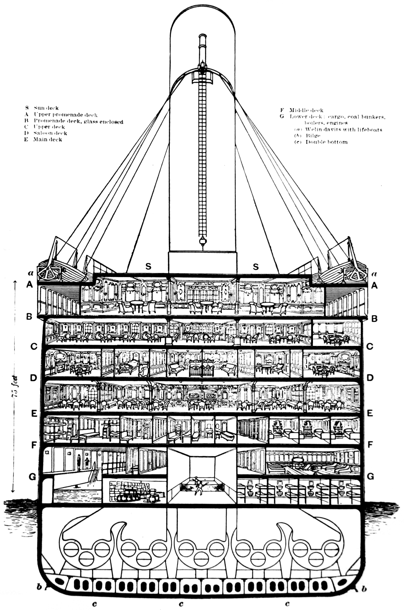 Cutaway diagram of RMS Titanic, midships